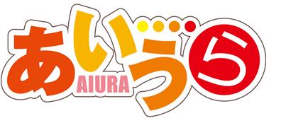 Aiura logo